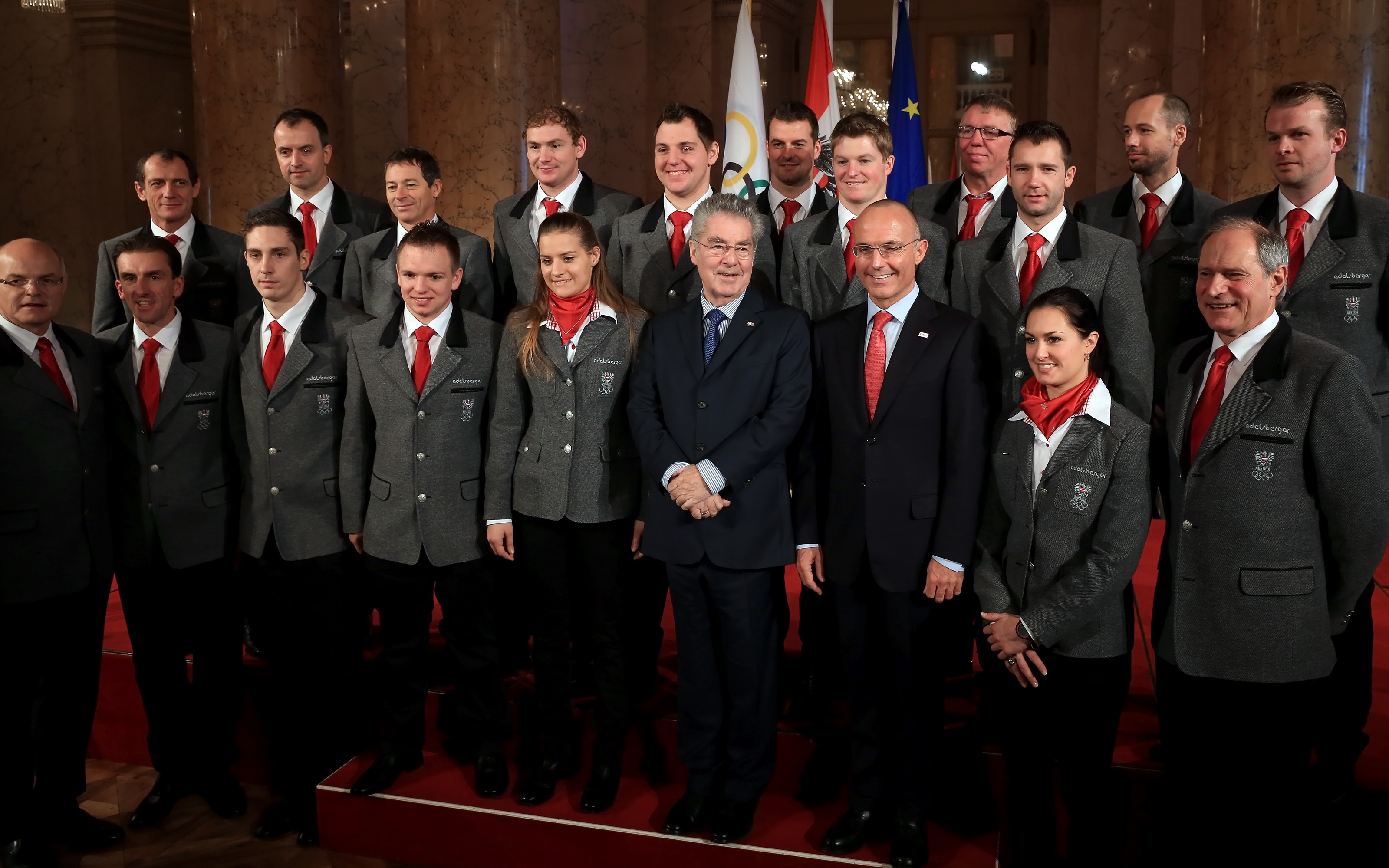 Athletes of the Austrian team for the 2014 Winter Olympics - Bobsleigh and Luge: Reinhard Egger, Georg Fischler, Wolfgang Kindl, Andreas Linger, Wolfgang Linger, Peter Penz, Daniel Pfister, Birgit Platzer, Nina Reithmayer and support team with Federal President Heinz Fischer, Federal Minister Gerald Klug and ÖOC officials Karl Stoss and Peter Mennel; group picture taken at Hofburg Palace in Vienna, Austria.